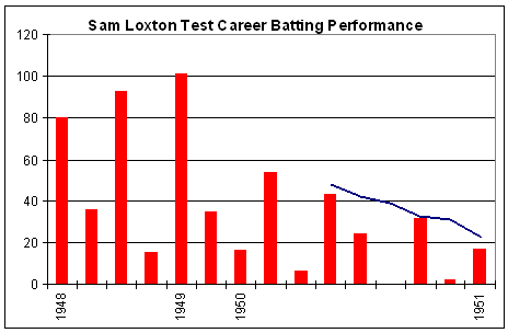 Test batting chart of Sam Loxton. Red columns are the runs in the innings. Blue dots indicate not outs. Blue line is average in the last ten innings. Thanks to Raven4x4x for providing the template. This graph was generated with Microsoft Excel 2002, using data from CricInfo [1] and HowStat [2].